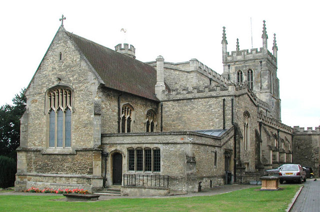 St Peter & St Paul, Newport Pagnell, Bucks